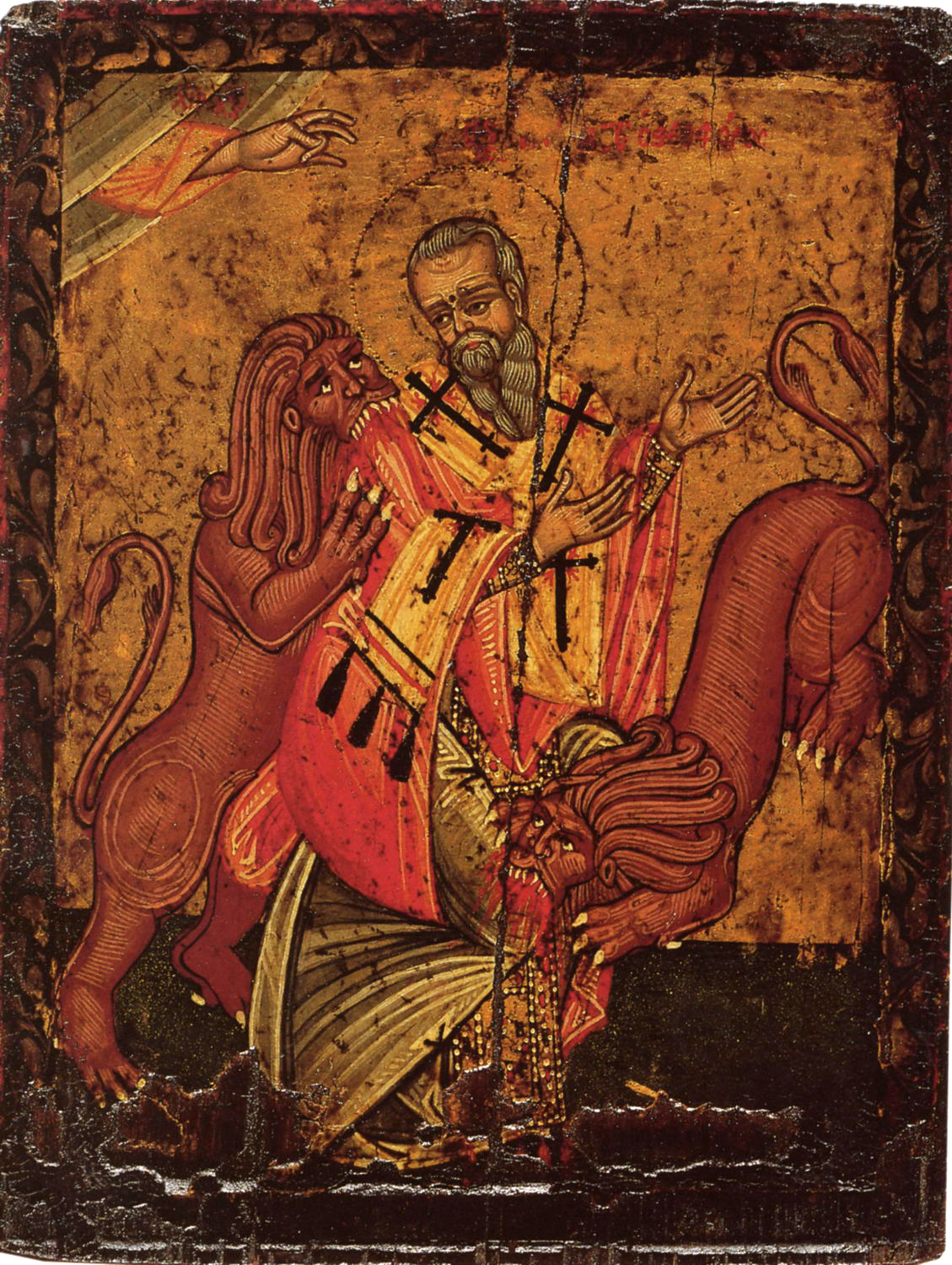 Ignatius of Antiochie